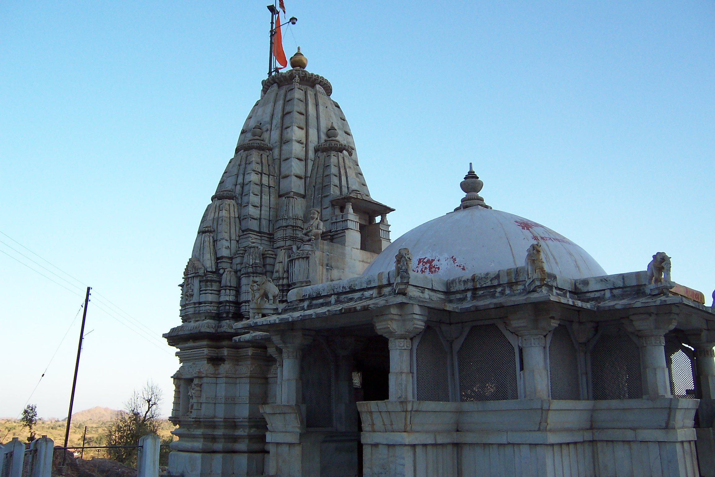 Koteshwar temple, Danta. Near Amabaji temple.